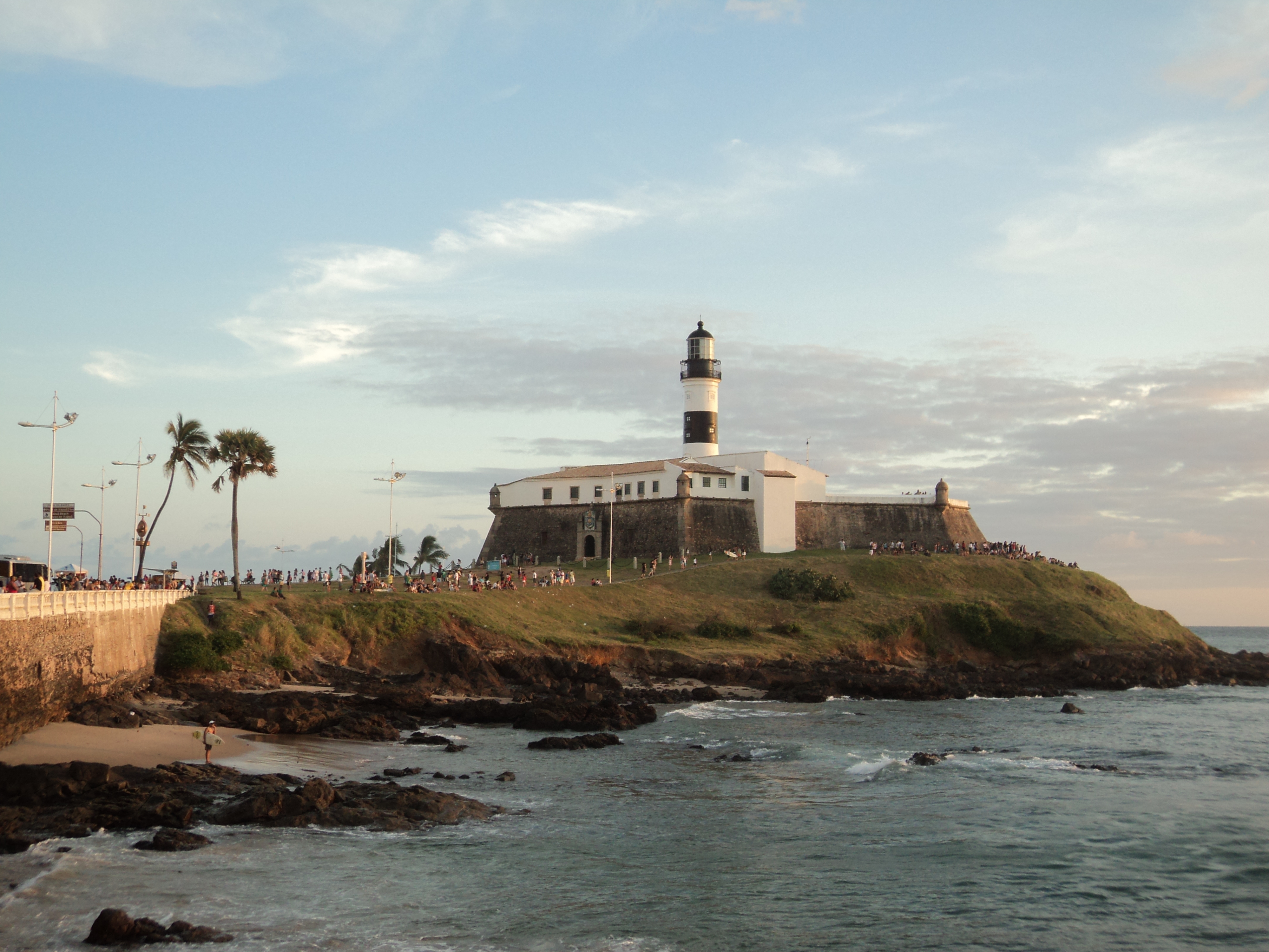 Farol da Barra. Salvador, Brazil.